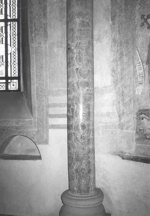 Column in the Bad Münstereifel parish church made out of material from the Eifel aqueduct.